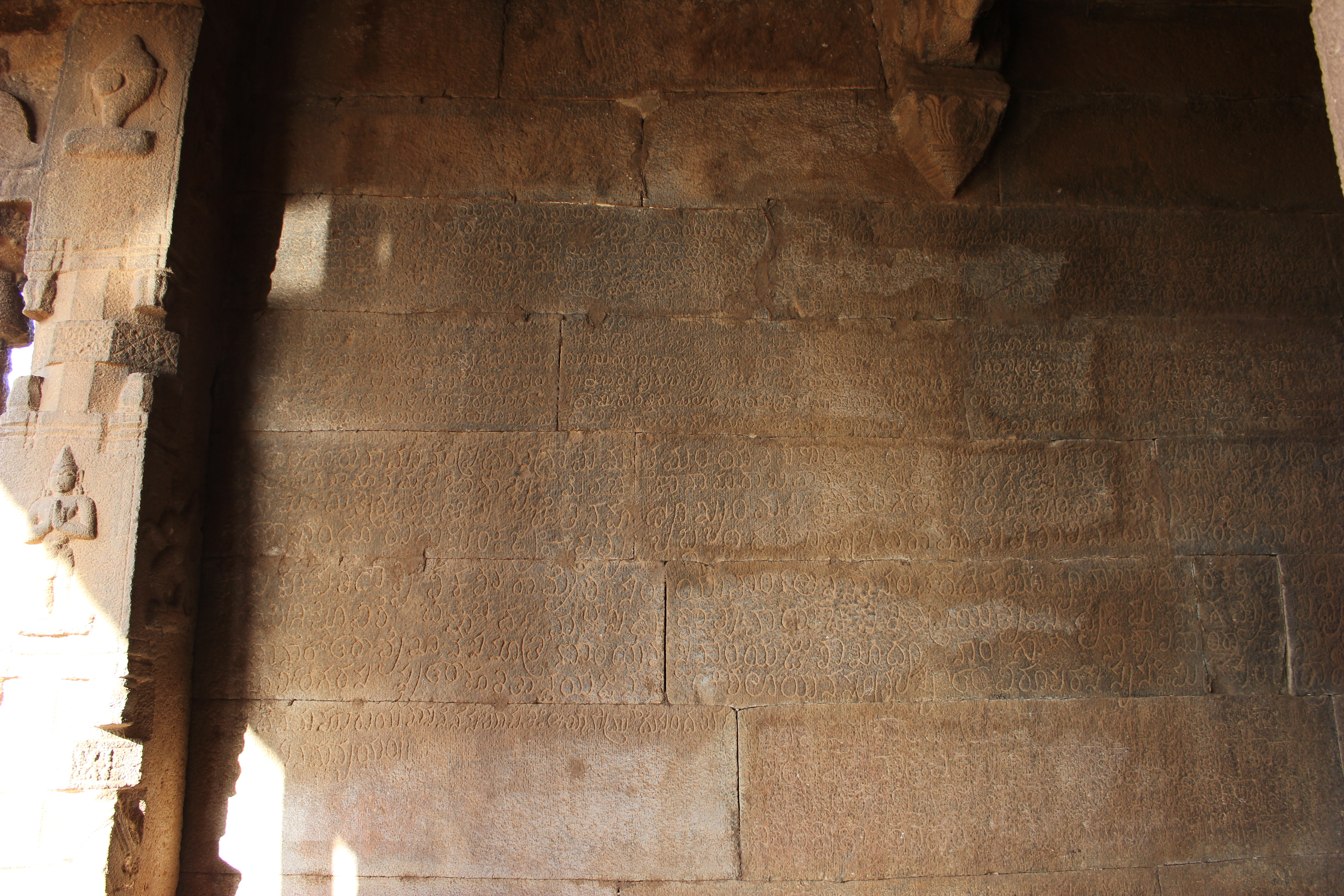 This photograph of a Kannada inscription dated 1524 A.D. was taken by me at the Ananthasayana temple in Ananthasayanagudi, Bellary district, Karnataka state, India. The temple was constructed by King Krishnadeva Raya (1524 AD) of the Vijayanagara Empire, in memory of his deceased son.